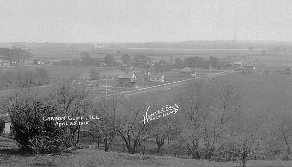 Postcard of Carbon Cliff, Illinois, in 1915